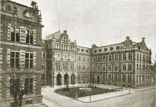 Building of the governorate of Danzig (till 1920), then the Senate of the Free City of Danzig (1920–1939); Gdańsk (Poland), Nowe Ogrody Street.